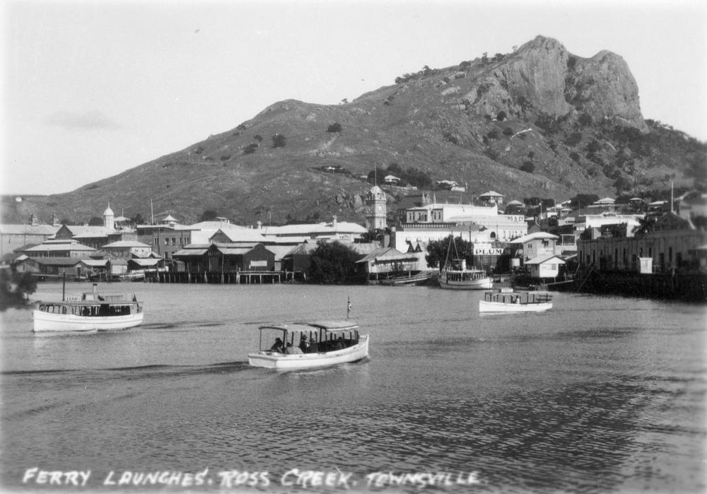 Ferries on Ross Creek, Townsville. View of Ross Creek at Townsville, with Castle Hill looming large in the background. A number of ferries are coming and going. Buildings line the bank, and houses can be seen around the base of Castle Hill.